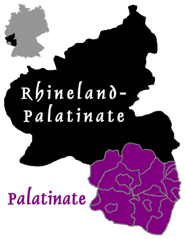 Location map of Palatinate in Rhineland-Palatinate